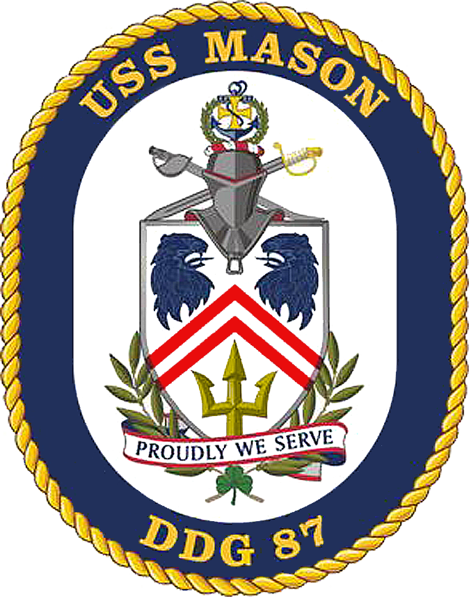 Emblem of the USS Mason (DDG-87)